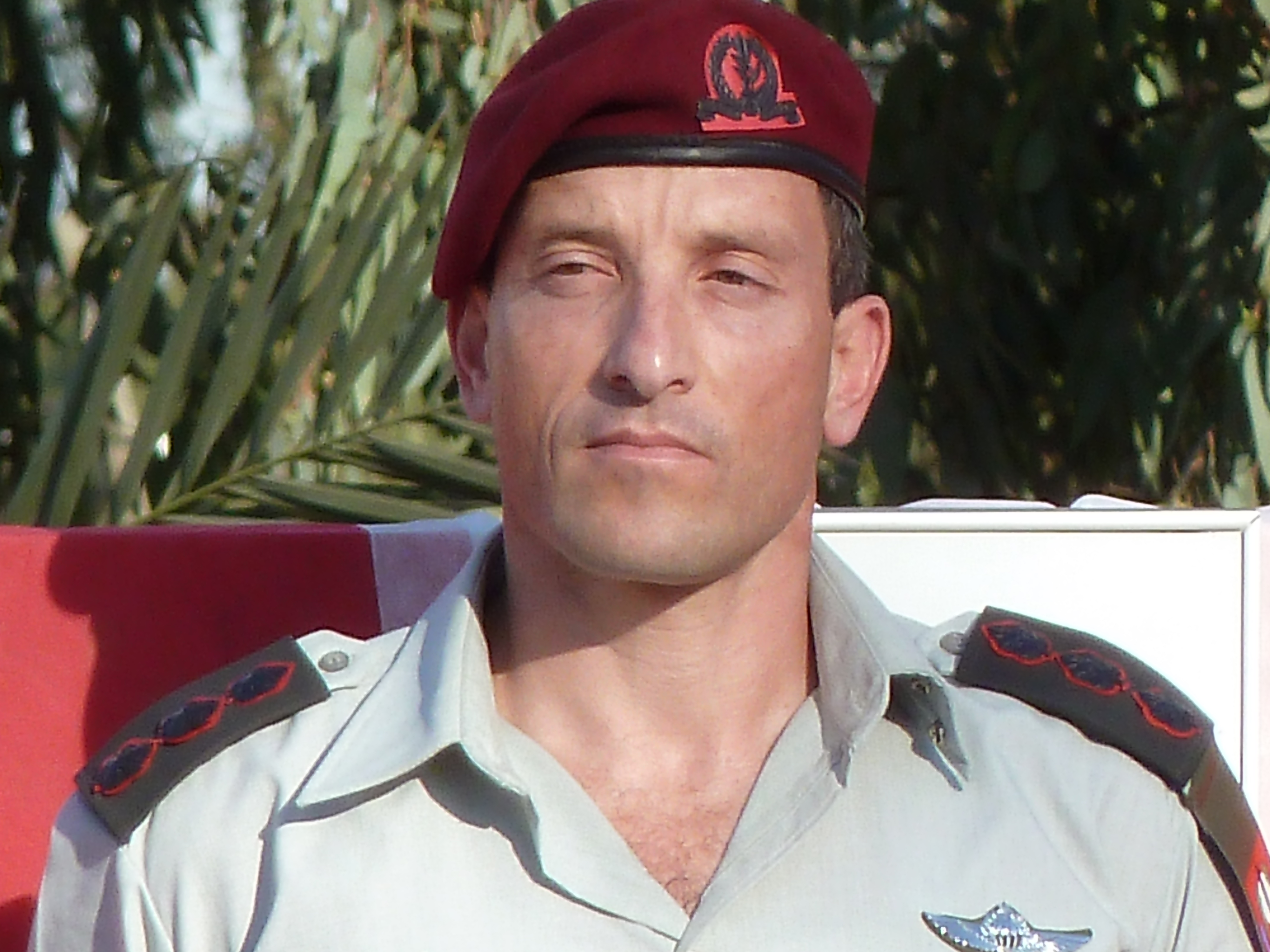 Amir Baram